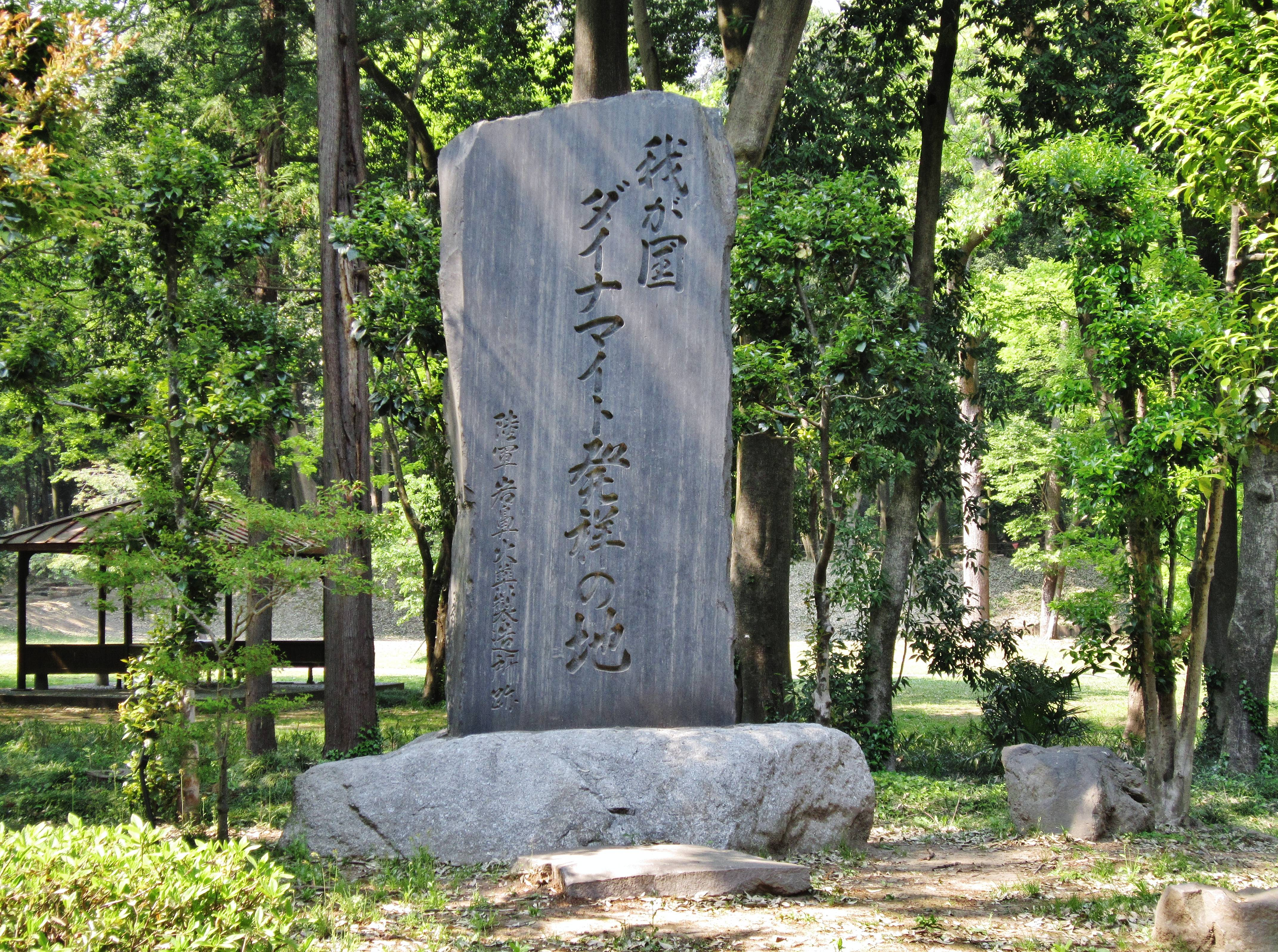 Forest of Gunma dynamite monument.